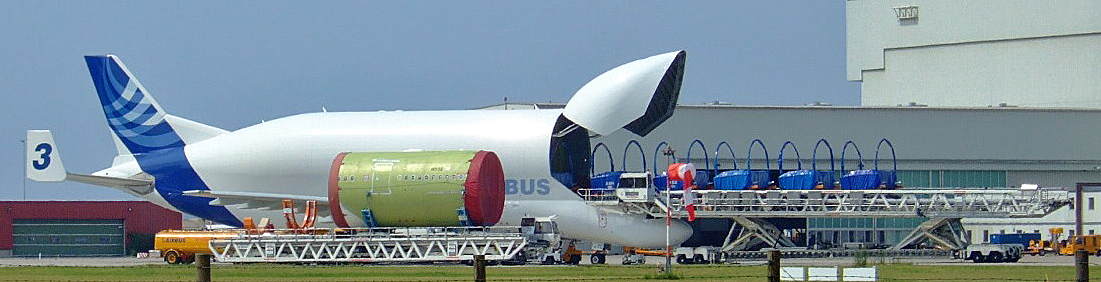 Loading an Airbus Beluga, Hamburg-Finkenwerder, Germany.DSCF0336 - Beluga loading